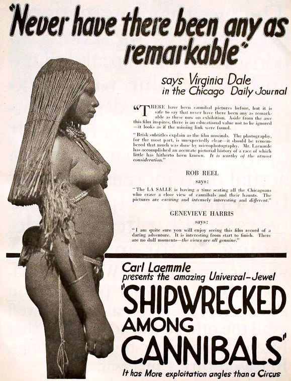 Advertisement for the American film Shipwrecked Among Cannibals (1920), on page 1267 of the August 14, 1920 Motion Picture News. This ad in the trade press intended for theater owners emphasizes the exploitative elements of this travel documentary in southeast Asia with an apparently fictitious encounter with cannibals on an island.